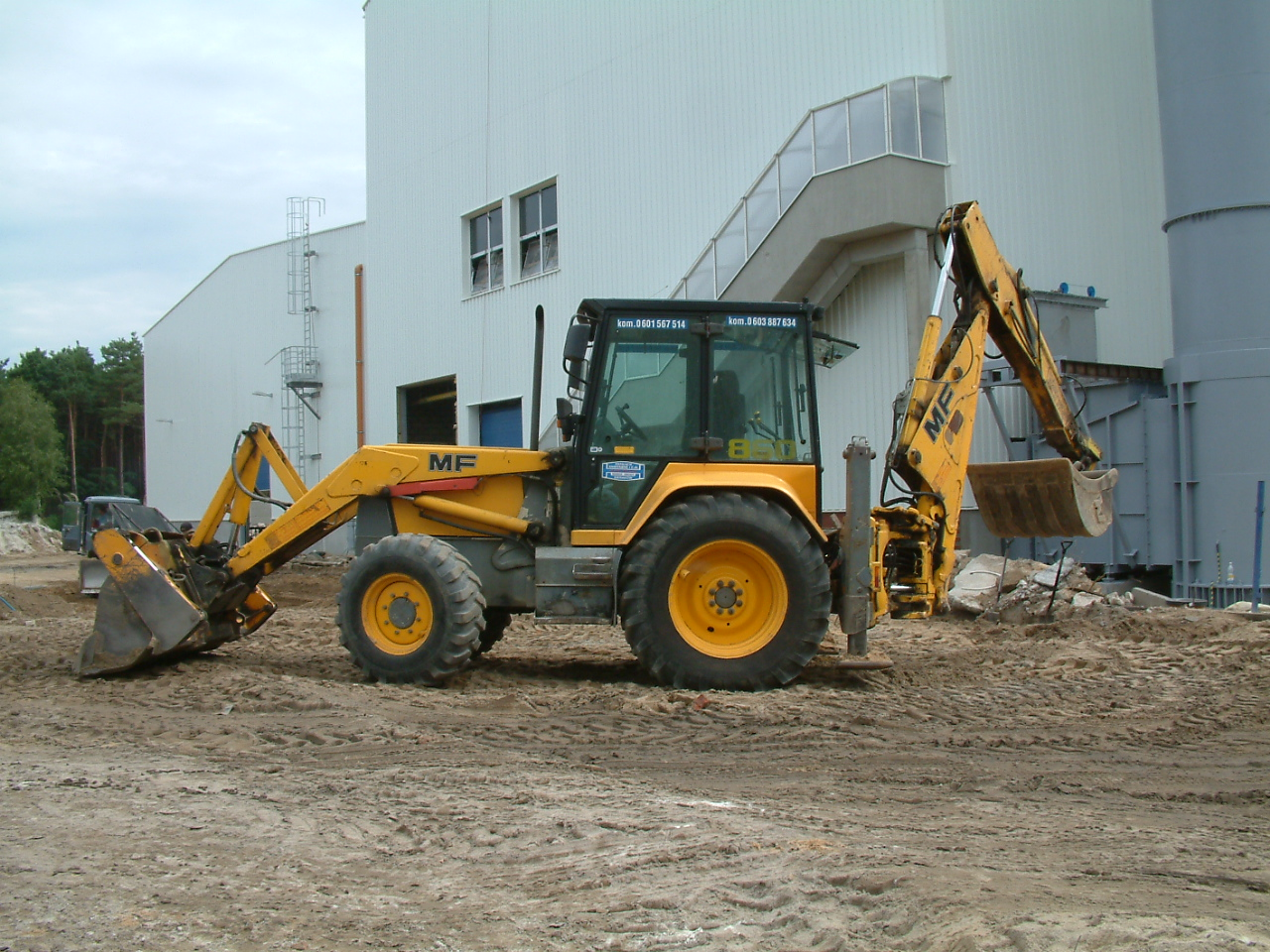 Massey Ferguson 860 backhoe loader (produced in the 1990s)